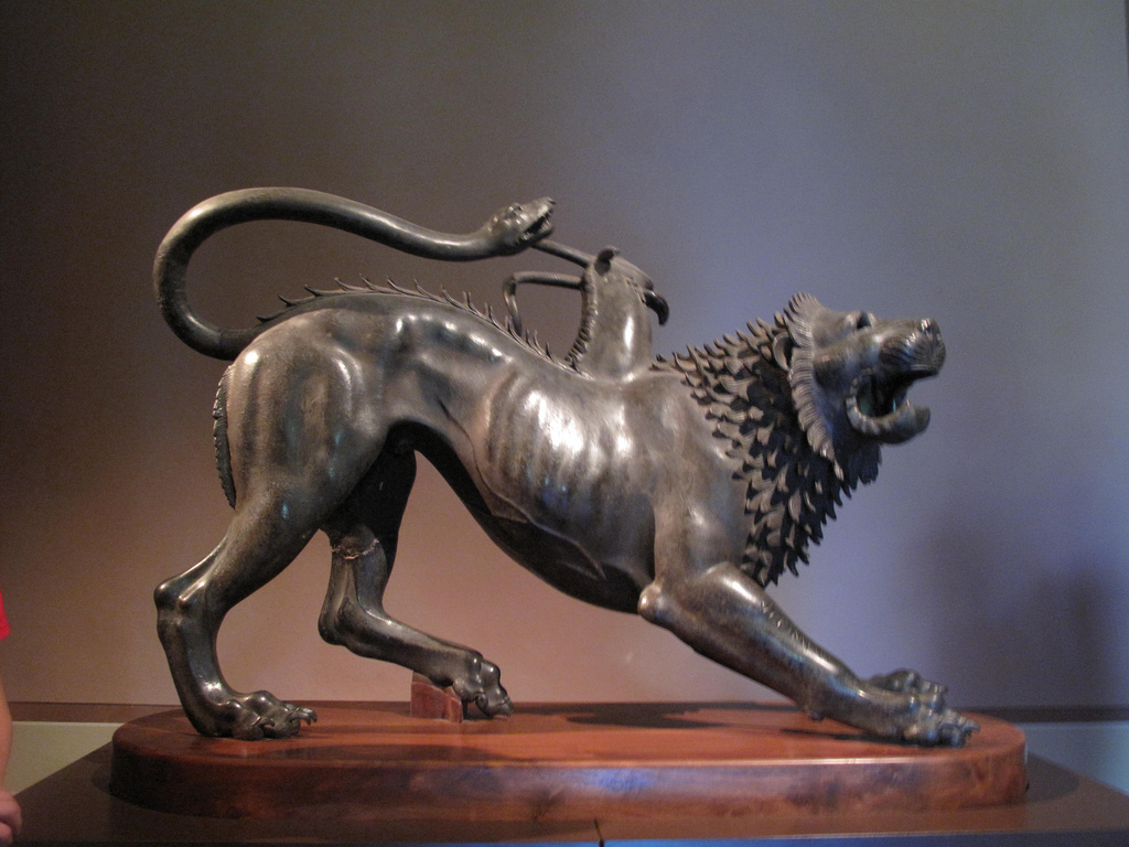 Etruscan bronze statue depicting the legendary monster. It was originally part of a group with Bellerophon and Pegasus. On the right leg is engraved the dedicatory inscription to Tinia.